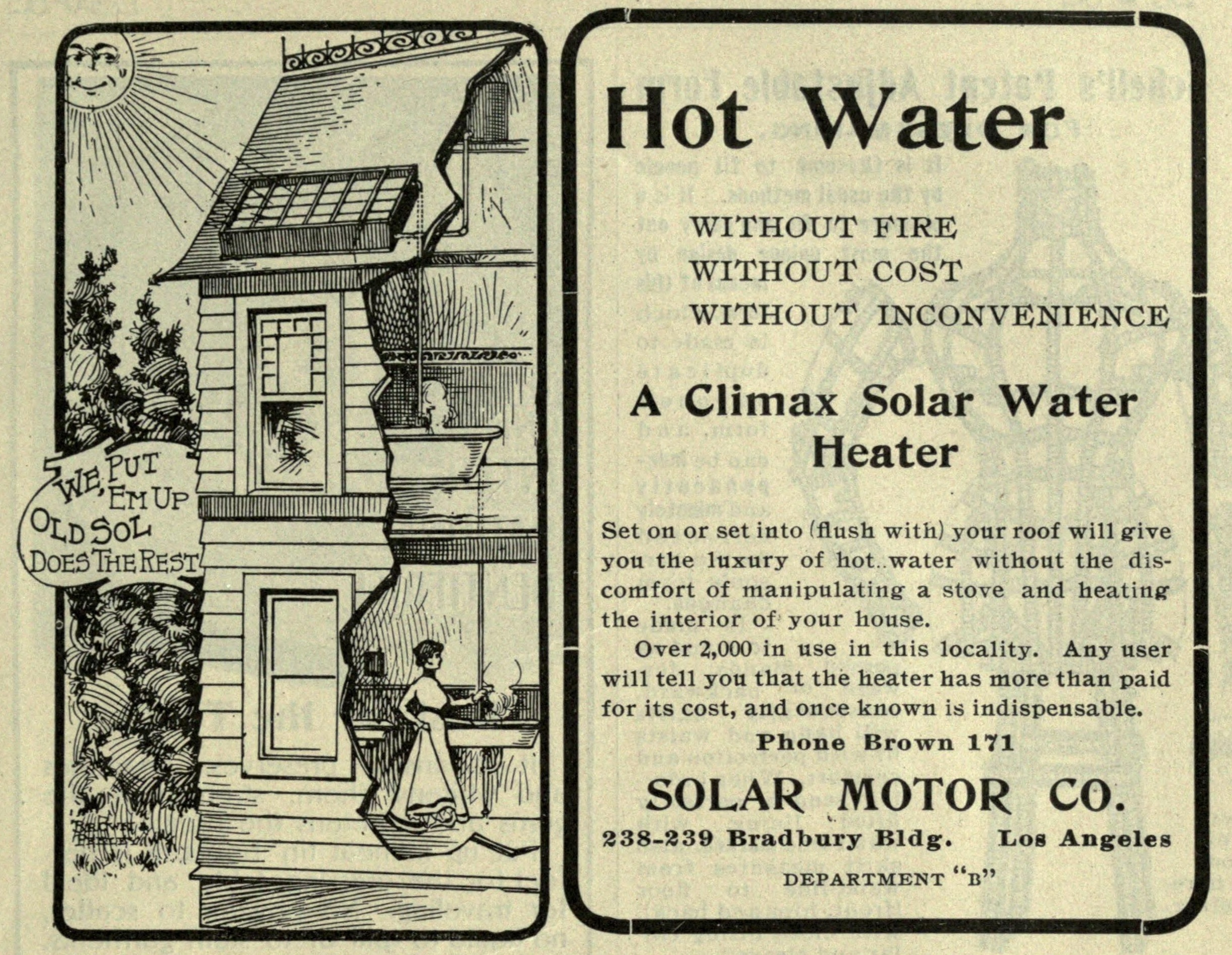 Advert for a Solar Water Heater ~1902 From Out West (1902)